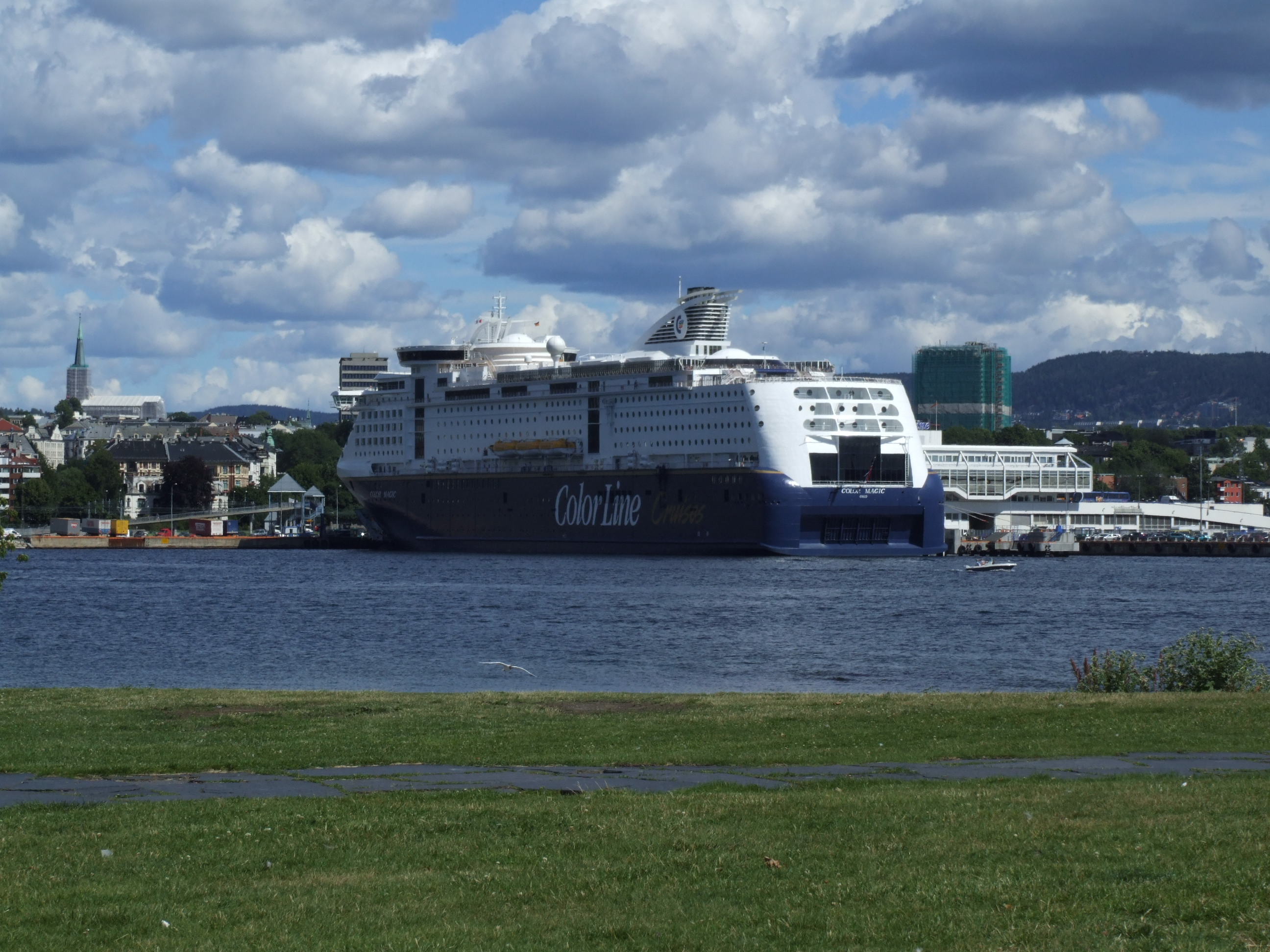 MS Color Magic in Oslo